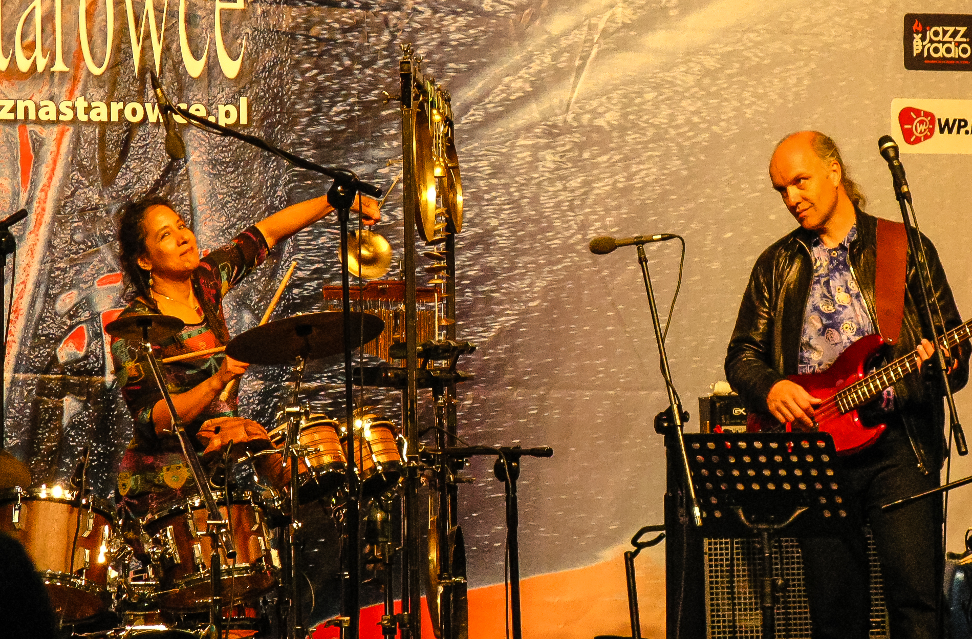 Marilyn Mazur Group, Jazz na Starówce Festival, Warsaw Old Town Square, 2008-08-23.